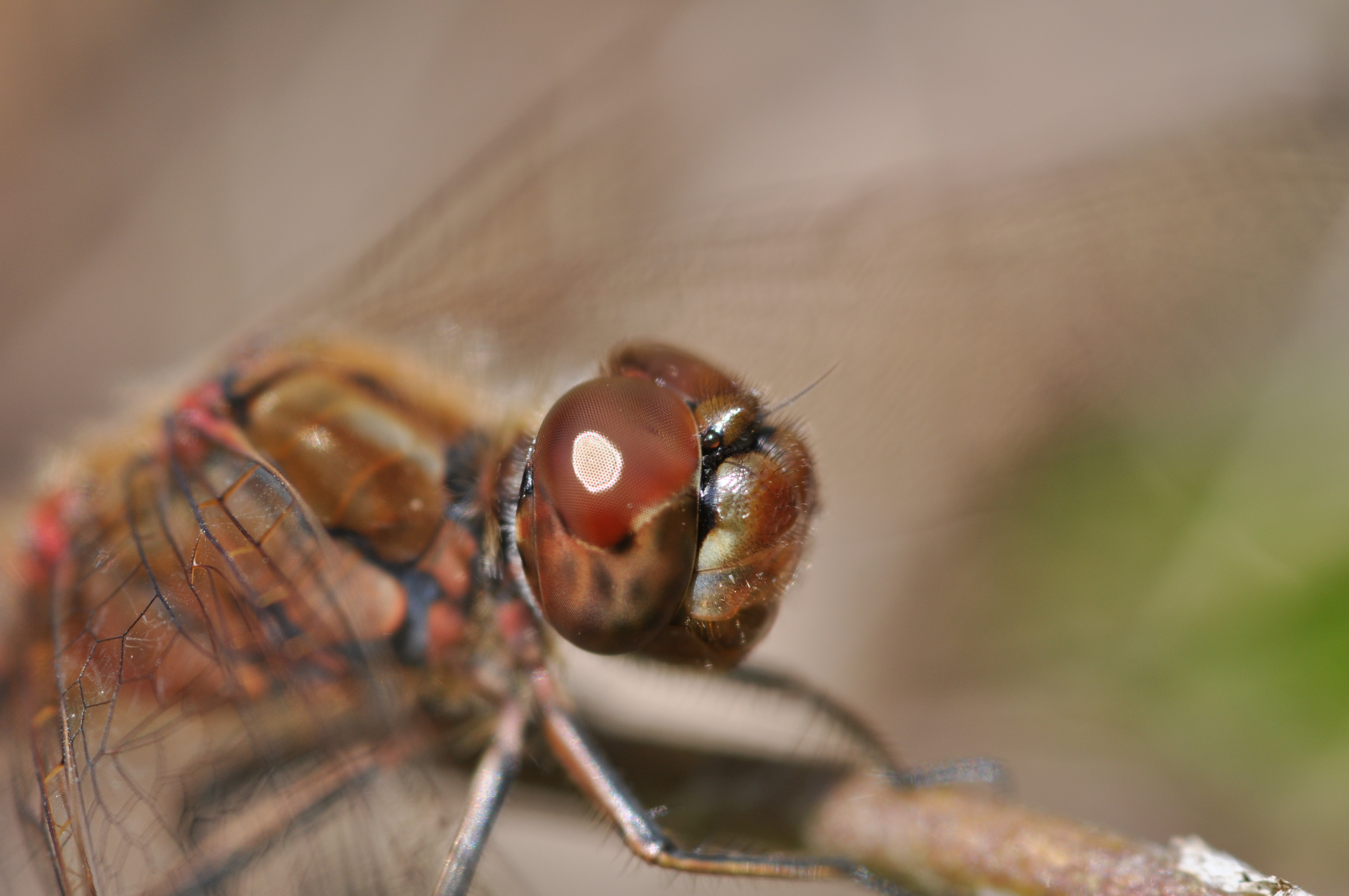 Vagrant Darter male portrait in Bahrenfeld, hamburg.